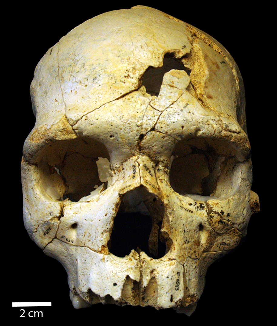 Cranium 17 of the Sima de los Huesos has been hit by two impacts that were not followed of healing